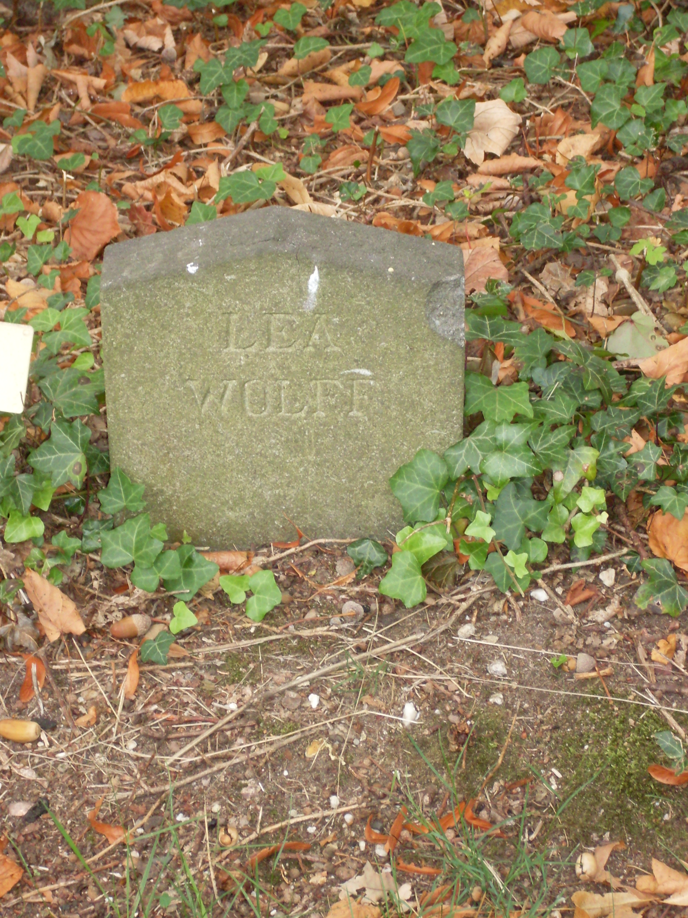 Jewish cemetery Nijmegen.